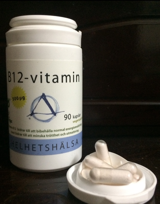 A Swedish vegan Vitamin 12 brand